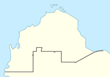 Al Shamal Municipality